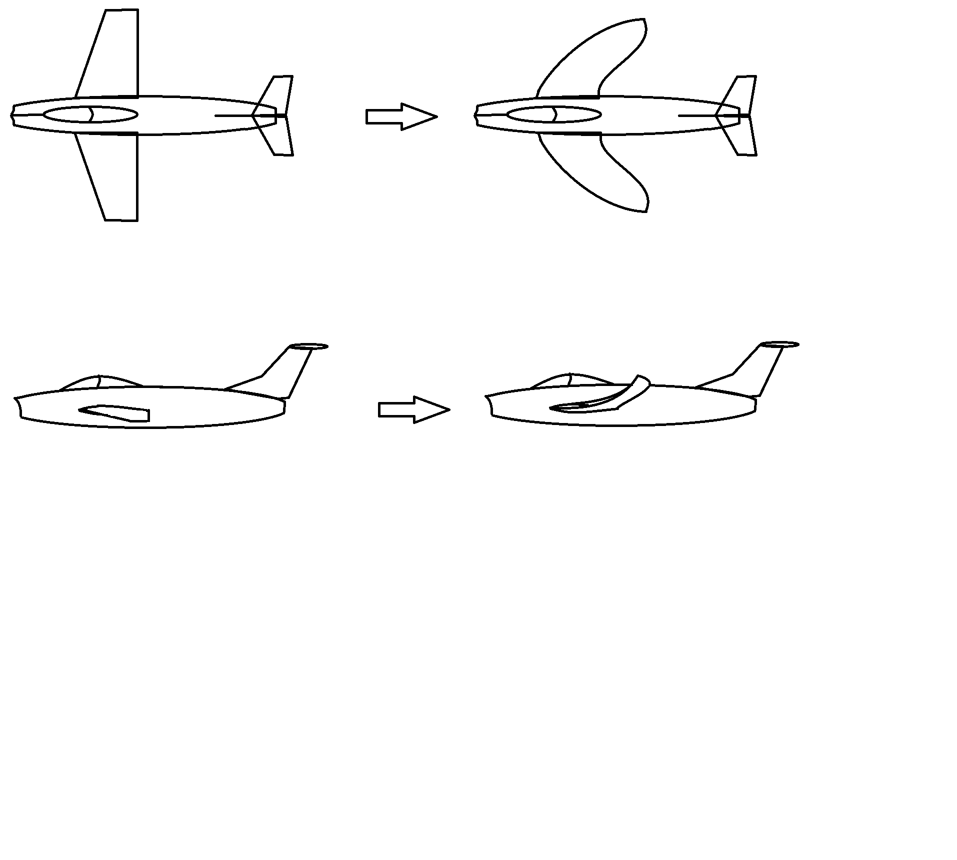 Simplified sketch of an airplane with adaptive structured wing